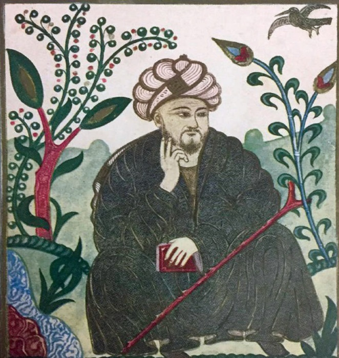 Old picture of Al-Farabi, great philosopher and musician.